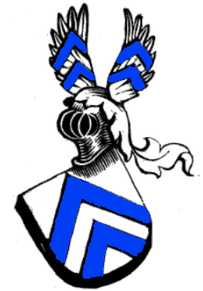 Coat of Arms noble family of Rennenberg